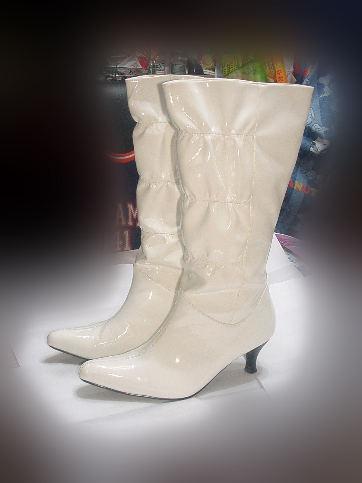 A pair of kneehigh boots in white leather with 6 cm (2.36") stiletto heels